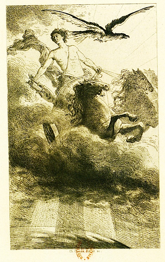 Etching by Carlo Chessa, published in Le Chariot d'or by Albert Samain, Paris, Ferroud, 1907.